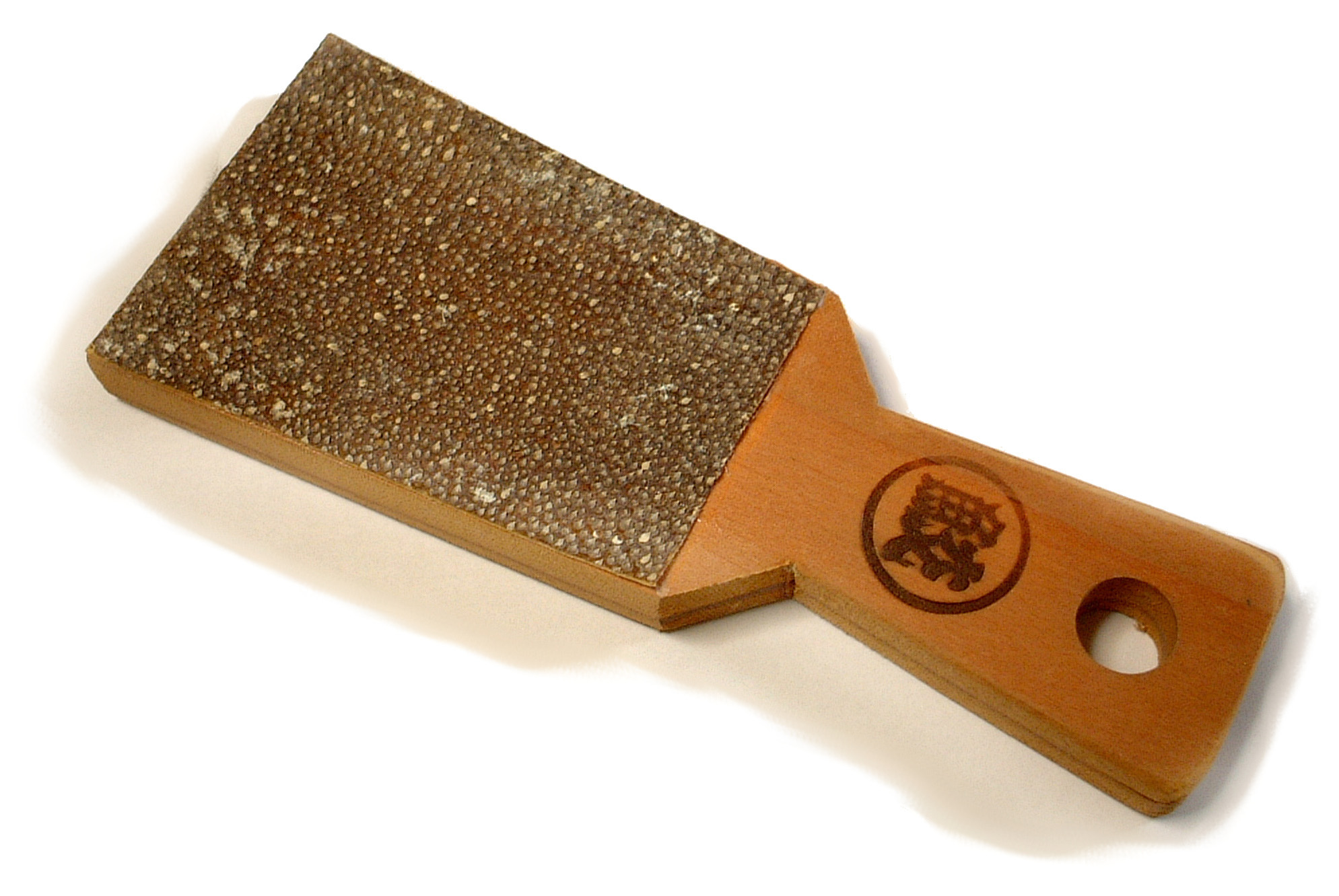 Wasabi Oroshi. Shark skin is used to make a fine wasabi paste. Photo taken in Japan.